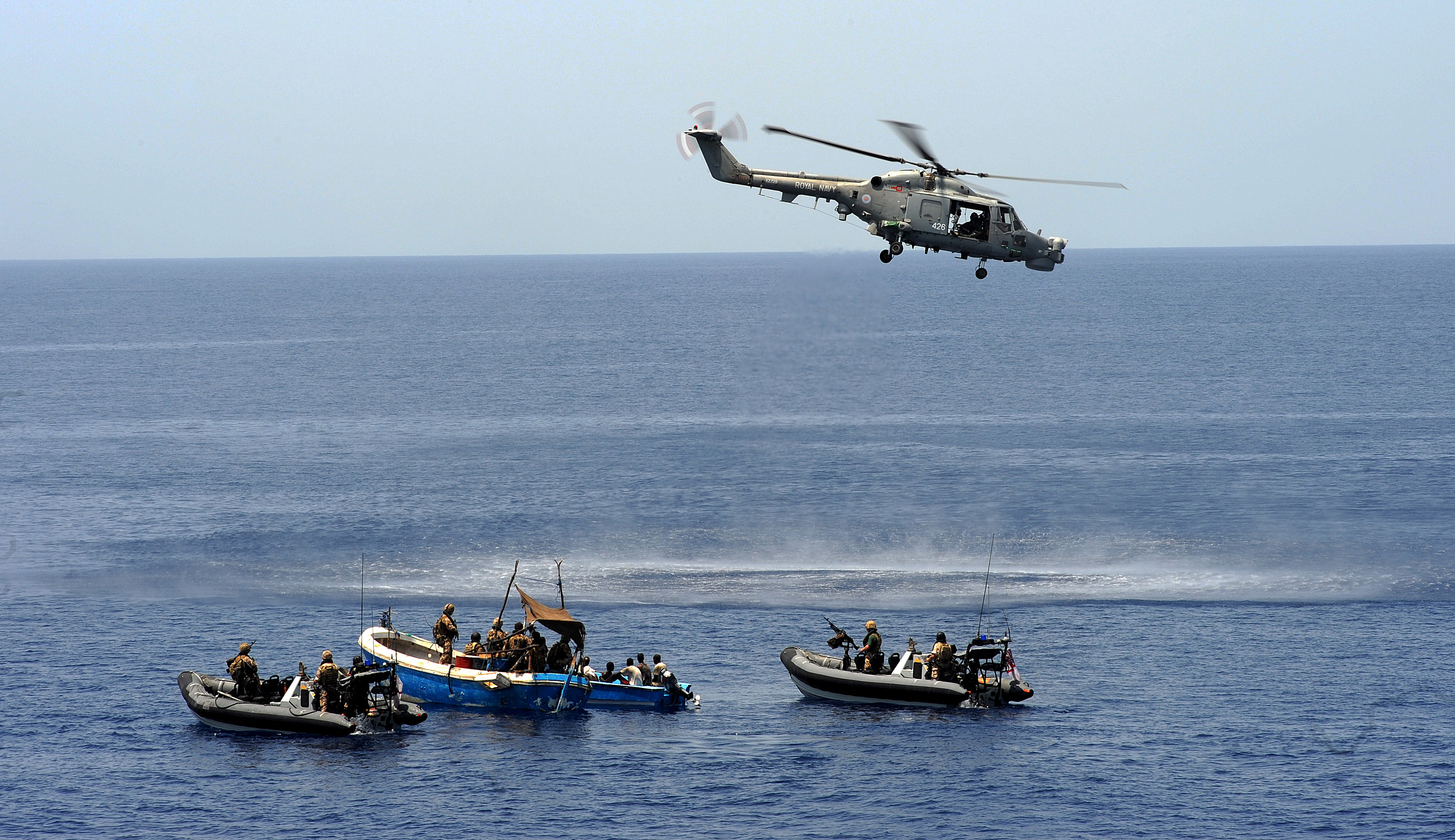 GULF OF ADEN (June 2, 2009) Royal Marines embarked aboard the Royal Navy frigate HMS Portland (F 79) investigate two suspected pirate skiffs in the Gulf of Aden. The skiffs, with 10 people aboard, were equipped with extra barrels of fuel, grappling hooks and a cache of weapons that included rocket propelled grenades, machine guns and ammunition. Due to insufficient evidence to directly link the group to a specific attack, the suspected pirates were disarmed and released. Portland destroyed one of the skiffs and confiscated the weapons. (Royal Navy photo by Alex Cave/Released)